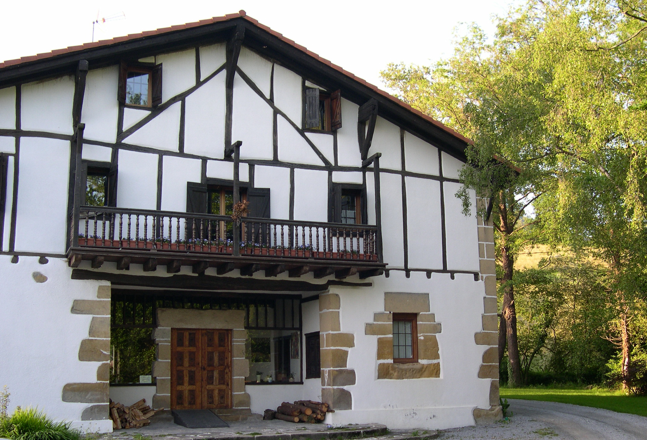 'Endara' Guest House. Lezo. Guipuscoa. Basque Autonomous Community.